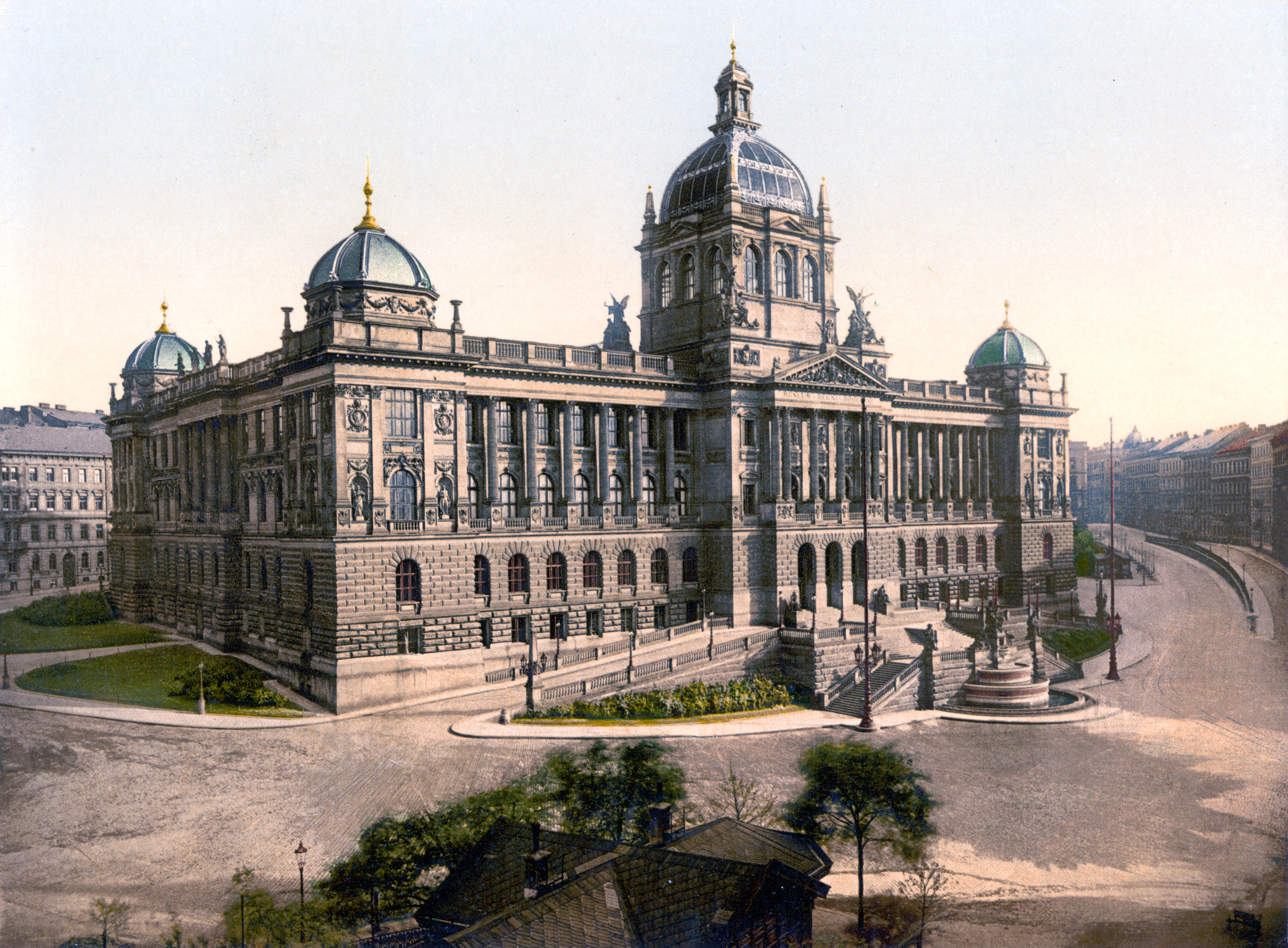 National Museum building in Prague, around 1900.